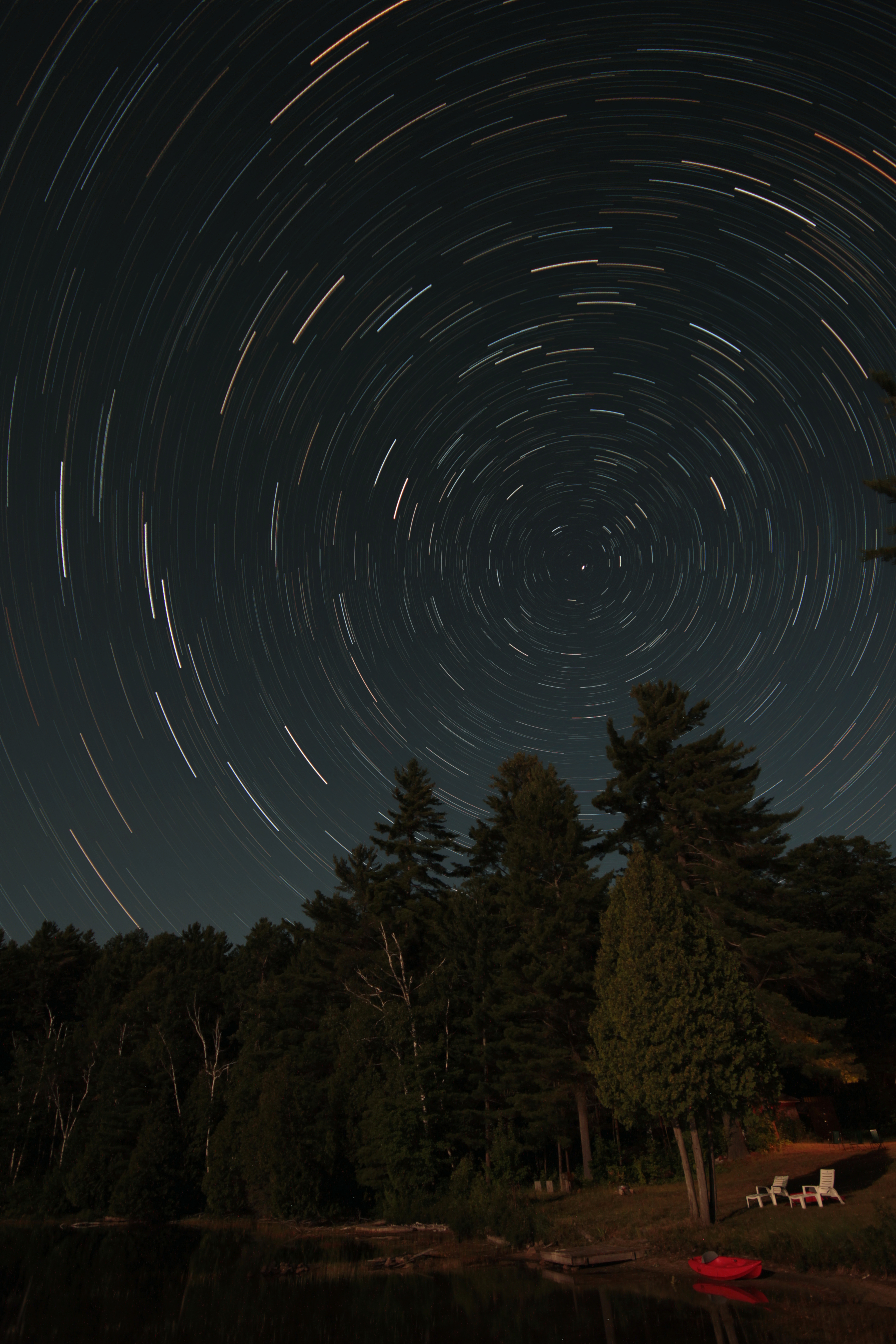 A composite time exposure (25x2 minutes) showing the apparent motion of stars about the north Celestial pole. f/5.6, 10mm (Sigma EF-S 10-20mm), 400 ISO, 25x2 minutes. Composite created using ImageJ and the GIMP (with fix-CA plugin).